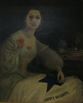 Photo of a painting hanging in the Texas State Capitol. It is a portrait of Joanna Troutman who sewed a flag for Georgia volunteers who were going to fight in the Texas Revolution in 1835 and 1836.